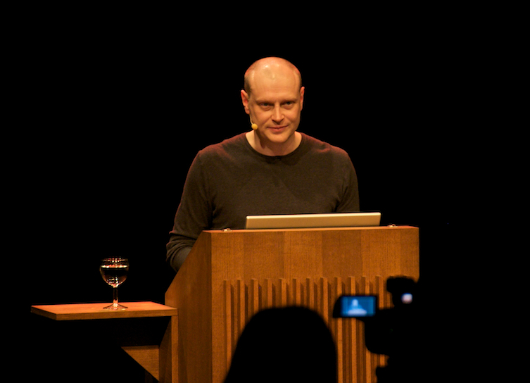 Jonathan Barnbrook at the conference TYPO Berlin 2010.